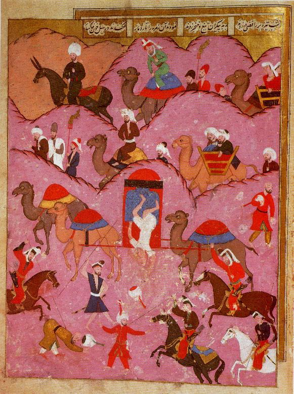 Murder of Ma'sum Beg, the envoy of the Safavid Shah Tahmasp, by Beduins in the Hijaz. A. 3595, folio 68a